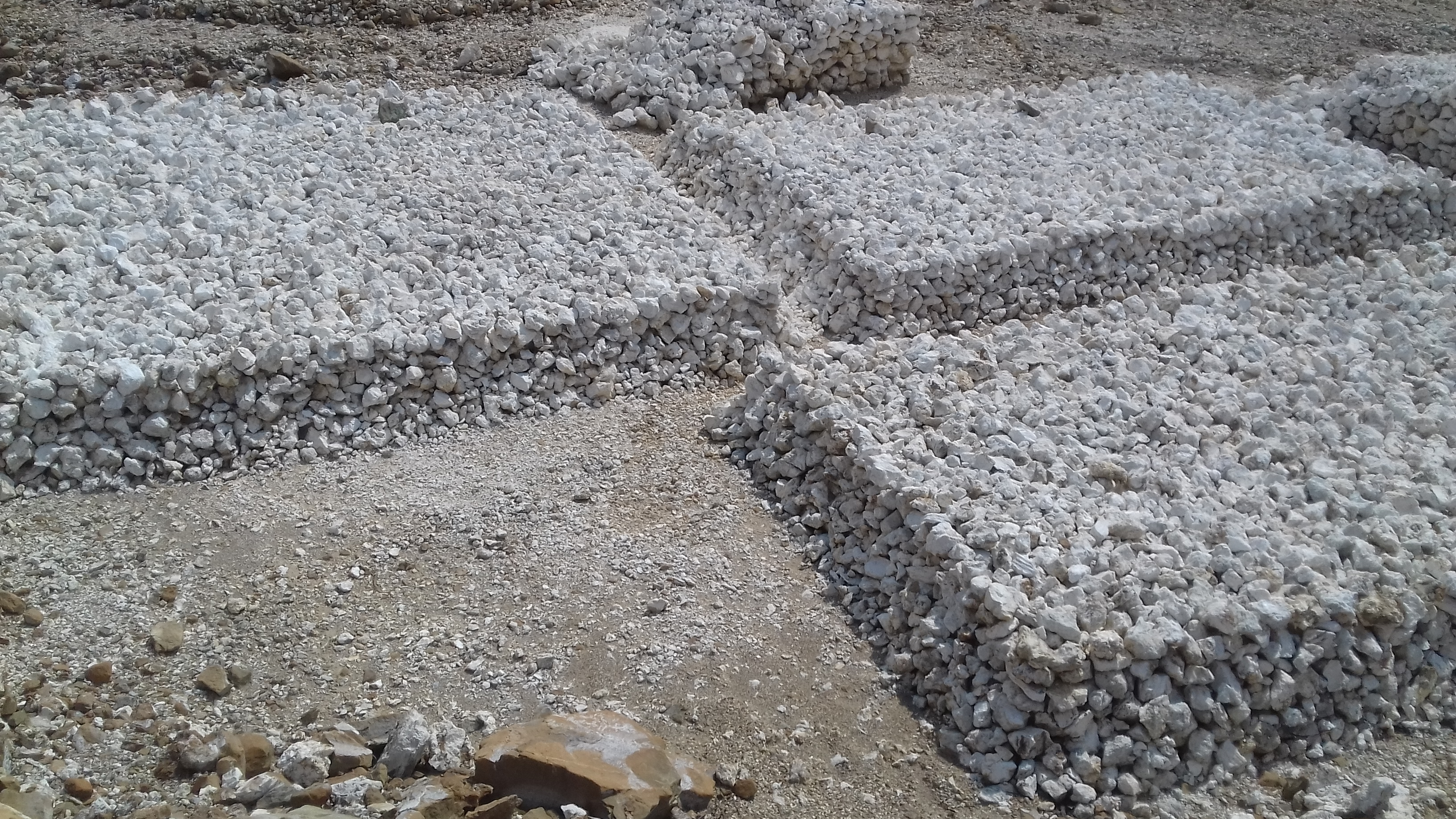 Magnesite of Salem, Dalmiyapuram, Salem, Tamilnadu